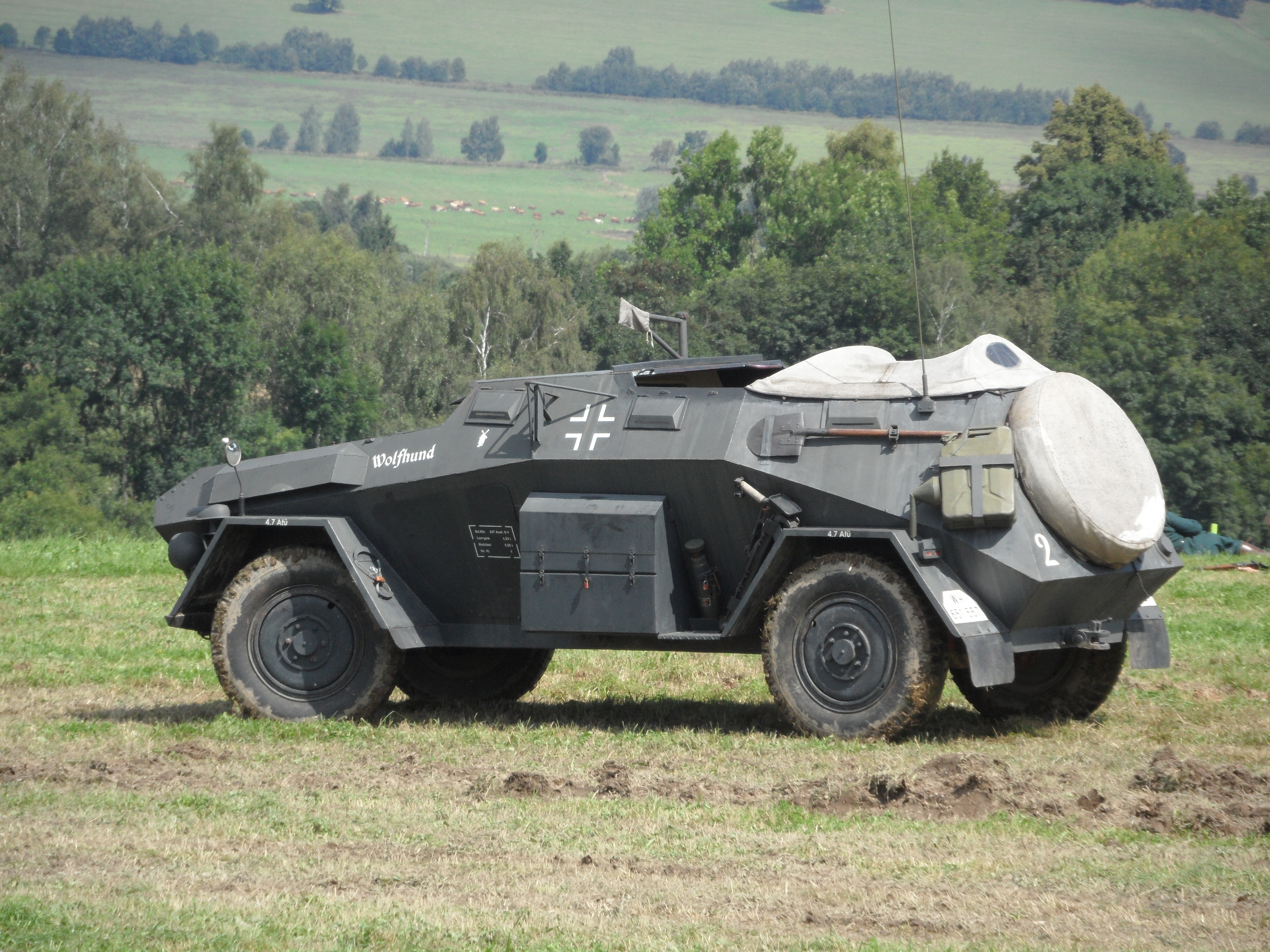 Akce Cihelna 2014 F24. Main Historical Presentation: Mobilisation 1938 (Saturday). Alternative Scenario: Fighting for the Borderline, Králíky, Ústí nad Orlicí District, the Czech Republic.